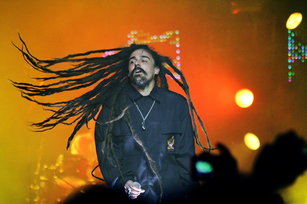 Dread Mar-I Show en Luna Park // Buenos Aires, Argentina // 2011